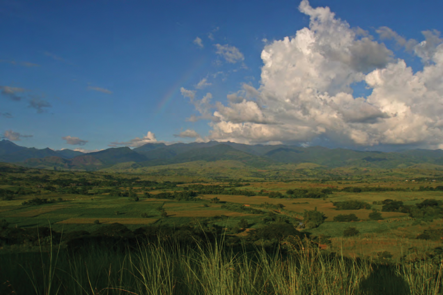 View of the Sierra Madre from the west, at the Municipality of Cabagan, Barangay Garita (Isabela Province). Photo: MVW.